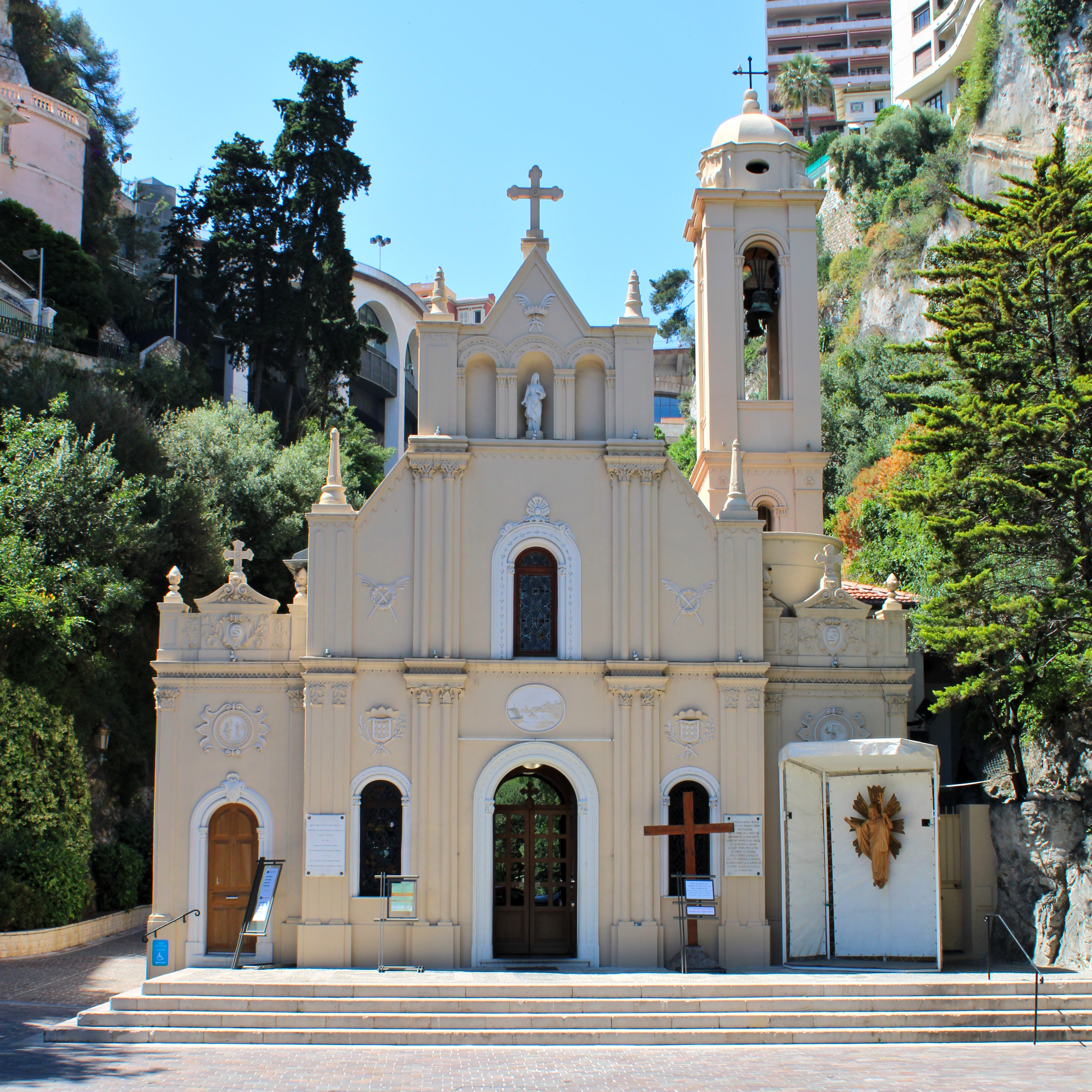 Église de Saint-Dévote Monaco